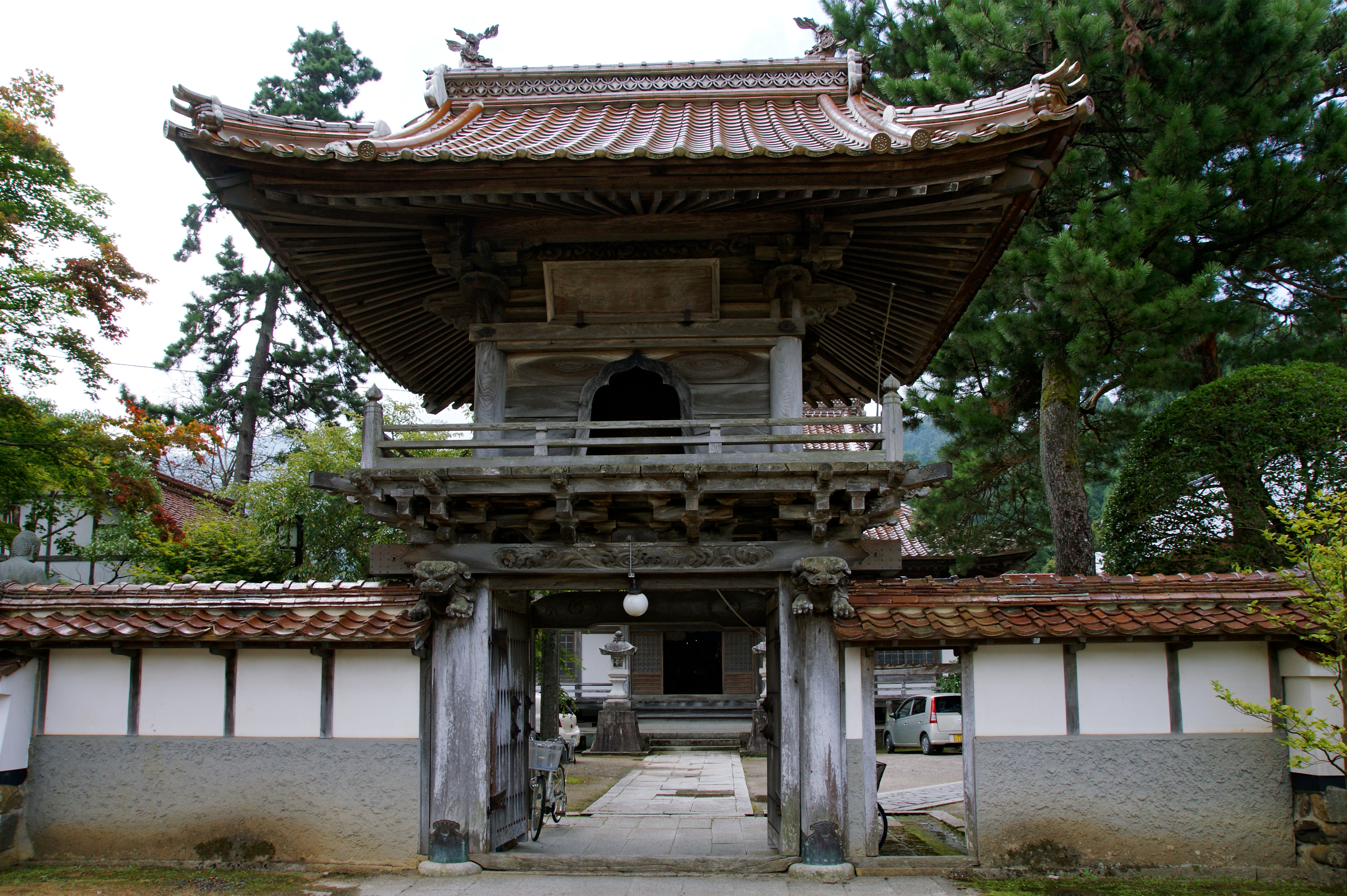 Ryutokuji in Wakasa, Tottori prefecture, Japan